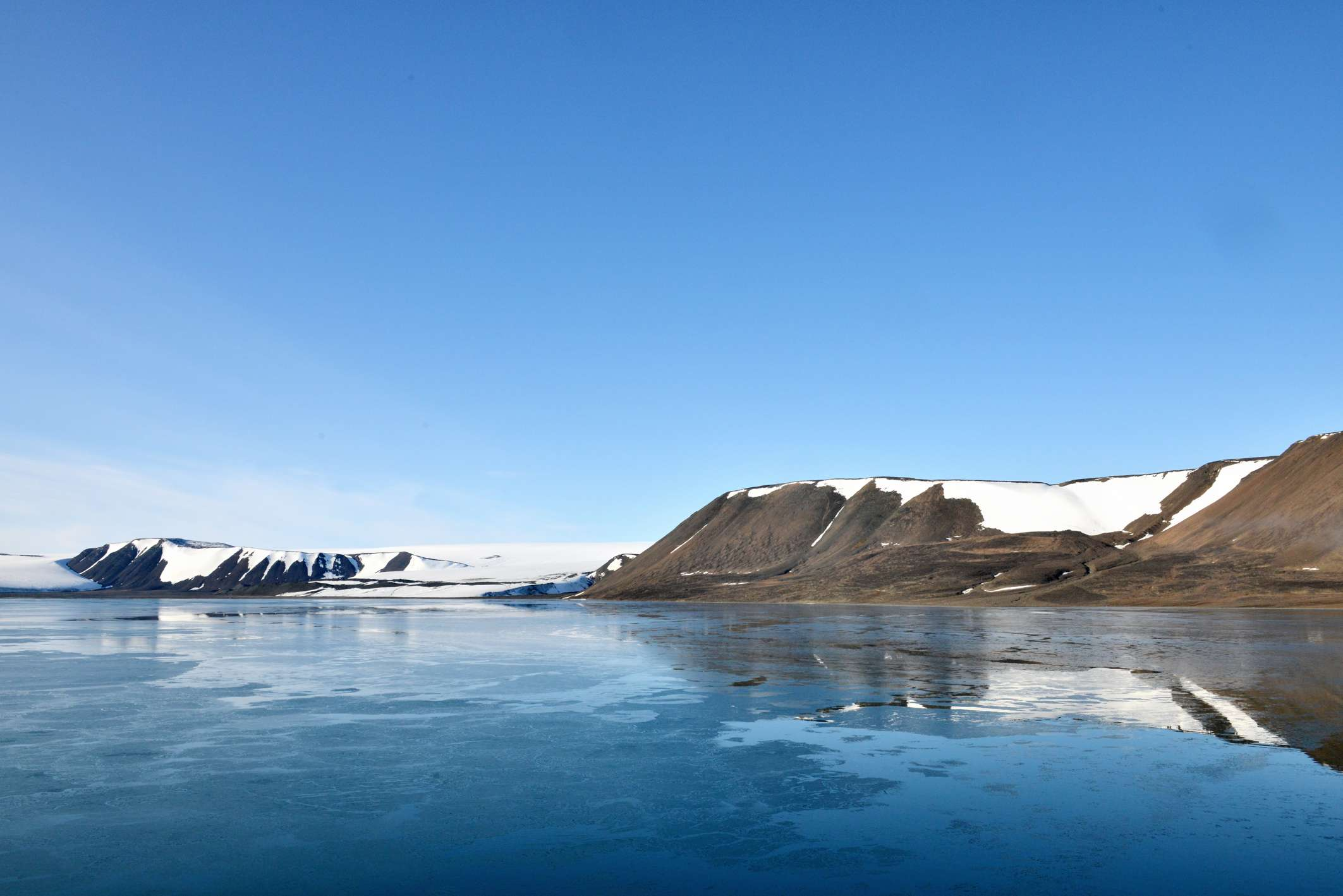 Fiord of Bolshevik Island (Severnaya Semlya, Russia; 79°13'N, 103°15'O)